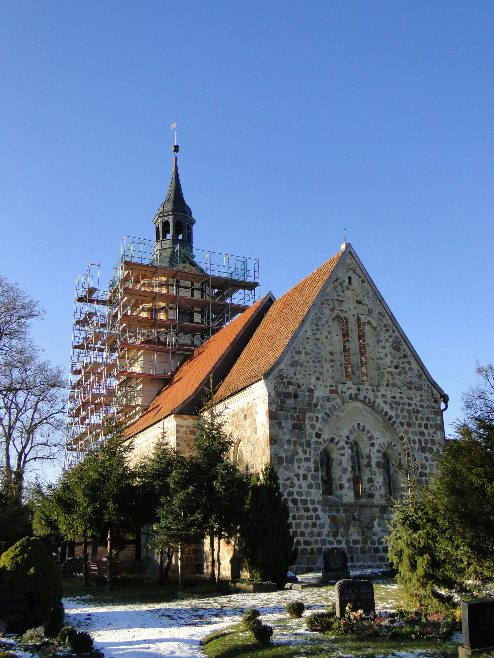 Church with scaffolding in Kotelow, district Mecklenburg-Strelitz, Mecklenburg-Vorpommern, Germany